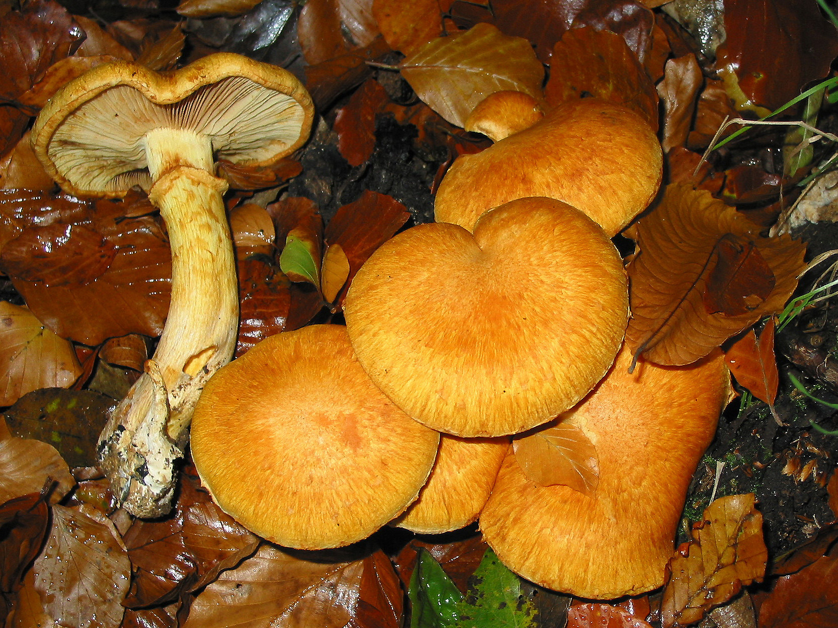 Laughing gym or Laughing Jim